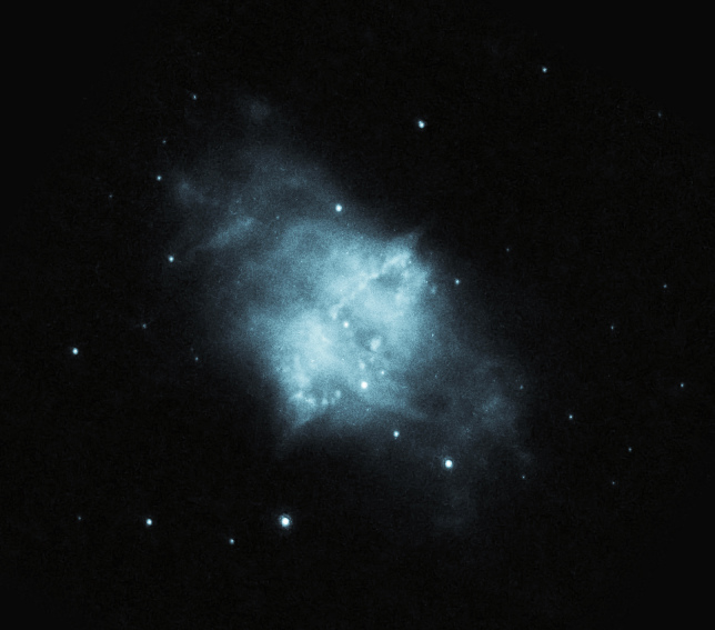 A fairly obscure planetary nebula that's actually rather pretty. There seems to be a ring of knots around the center. I'm not sure the central star is visible in this image. There is one that might be it but it's off center and it wouldn't be the first time a central star failed to appear in some f656n data. This is a single channel of data with some artificial color applied. Corners are discreetly missing data. All channels: hst_08345_33_wfpc2_f656n_pc_sci North is up.